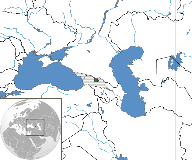 Map of South Ossetia (with Georgia and Abkhazia).